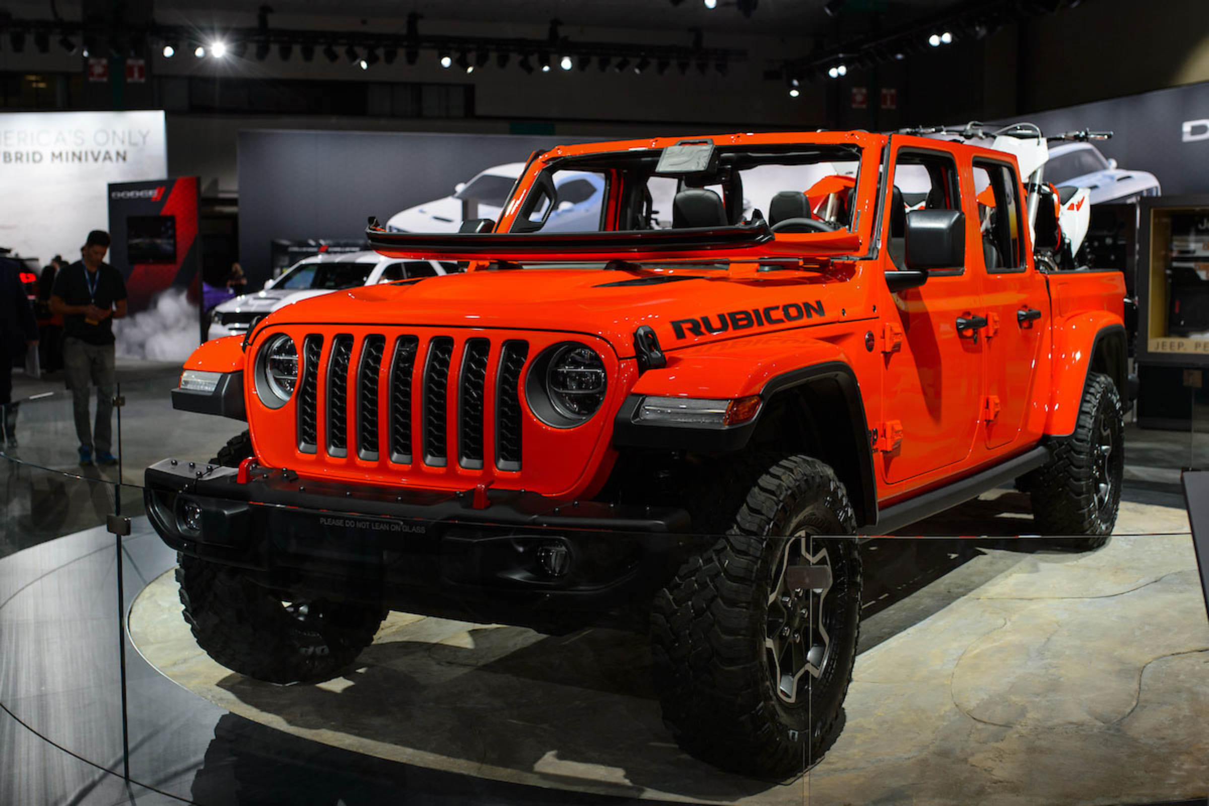 2018 Jeep Gladiator Rubicon at the 2018 LA Autoshow.